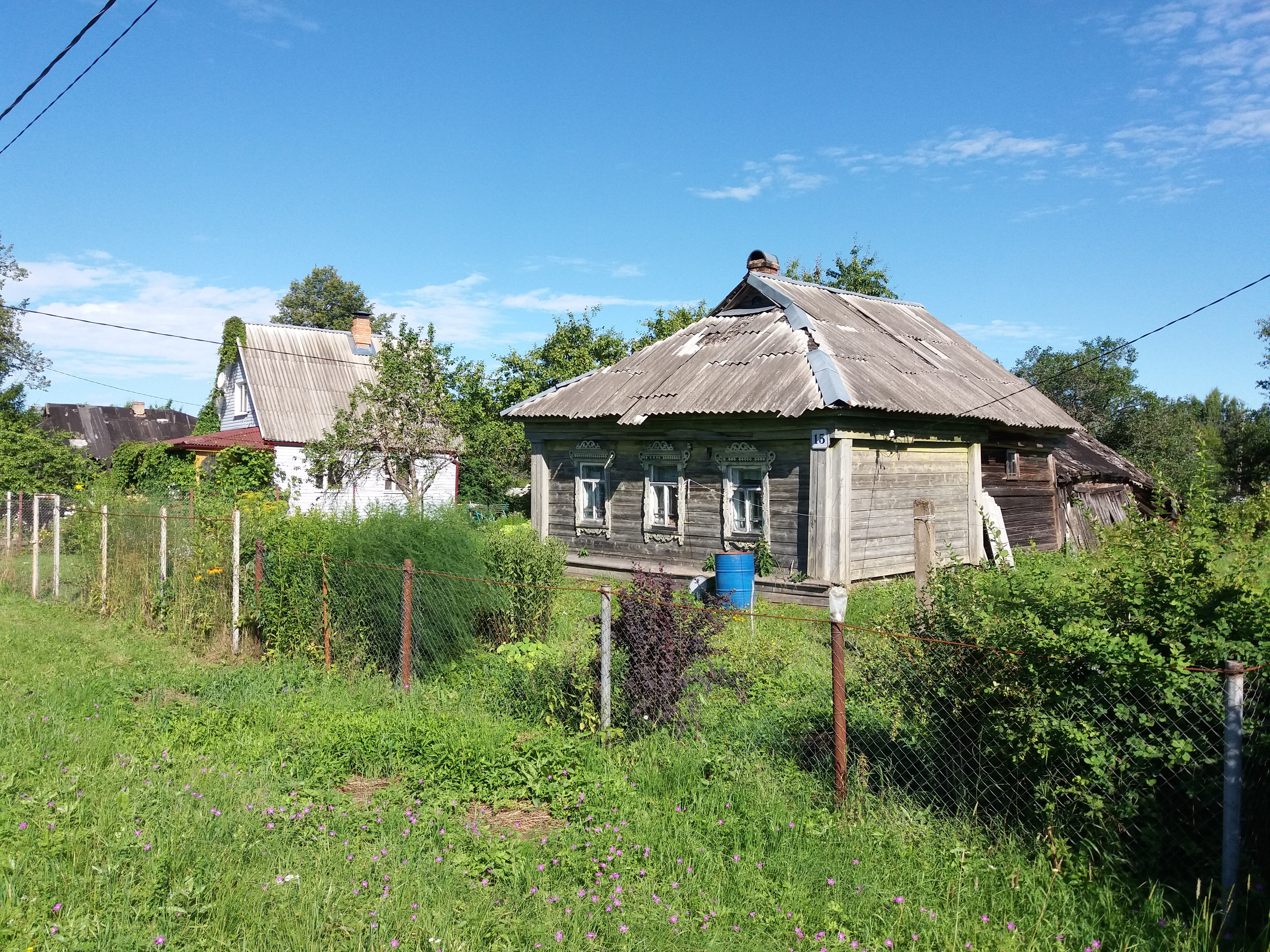 An old wooden house in Kobylino village, Shakhovskoy Municipal District, Moscow Oblast, Russia